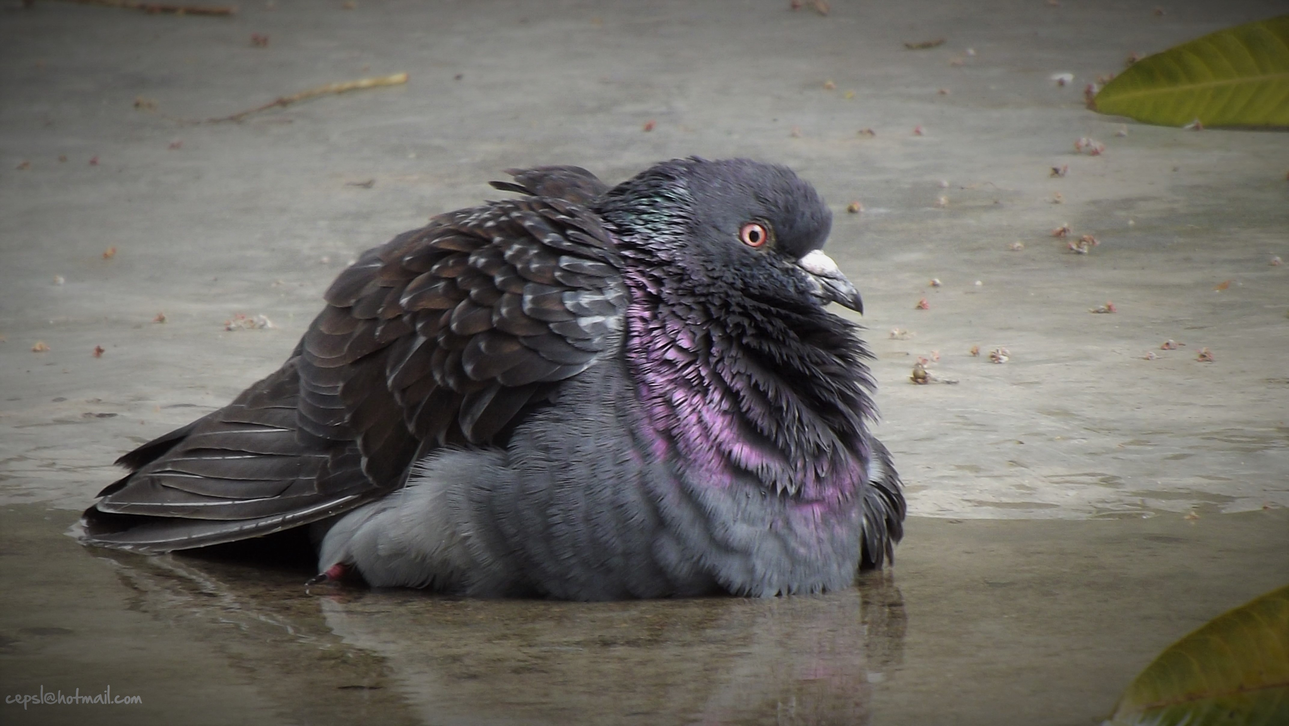 domestic pigeon - rock dove (Columba livia) cooling off in a pool of water.